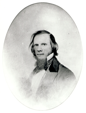 Isaac Sprague (1811-1895), American botanical painter. The origin of this photograph is unknown; however it appears to be circa 1850-1860 and thus copyright (if any) has long since expired.